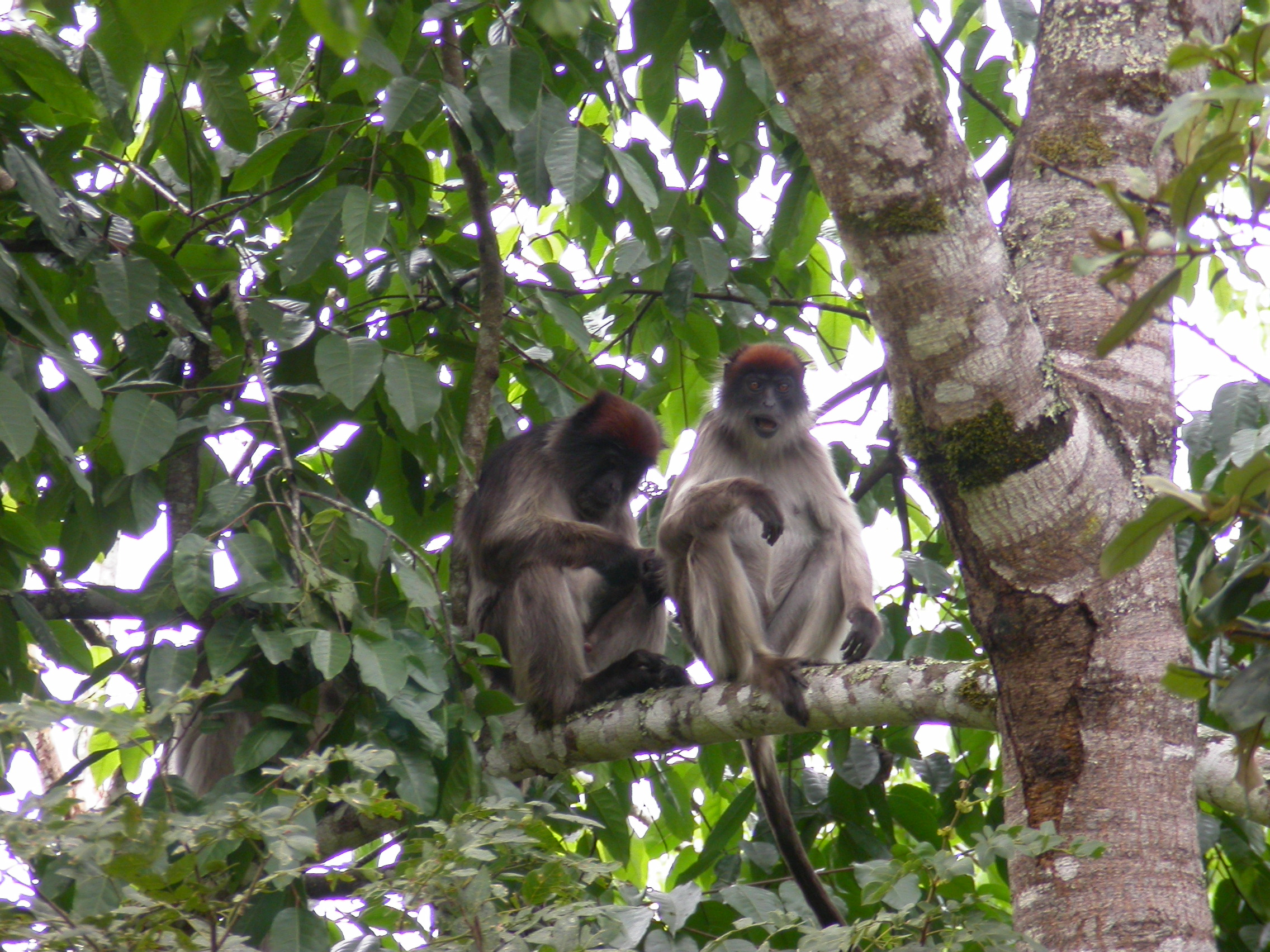 Ugandan Red Colobus's grooming in Kibale National Park, Uganda.